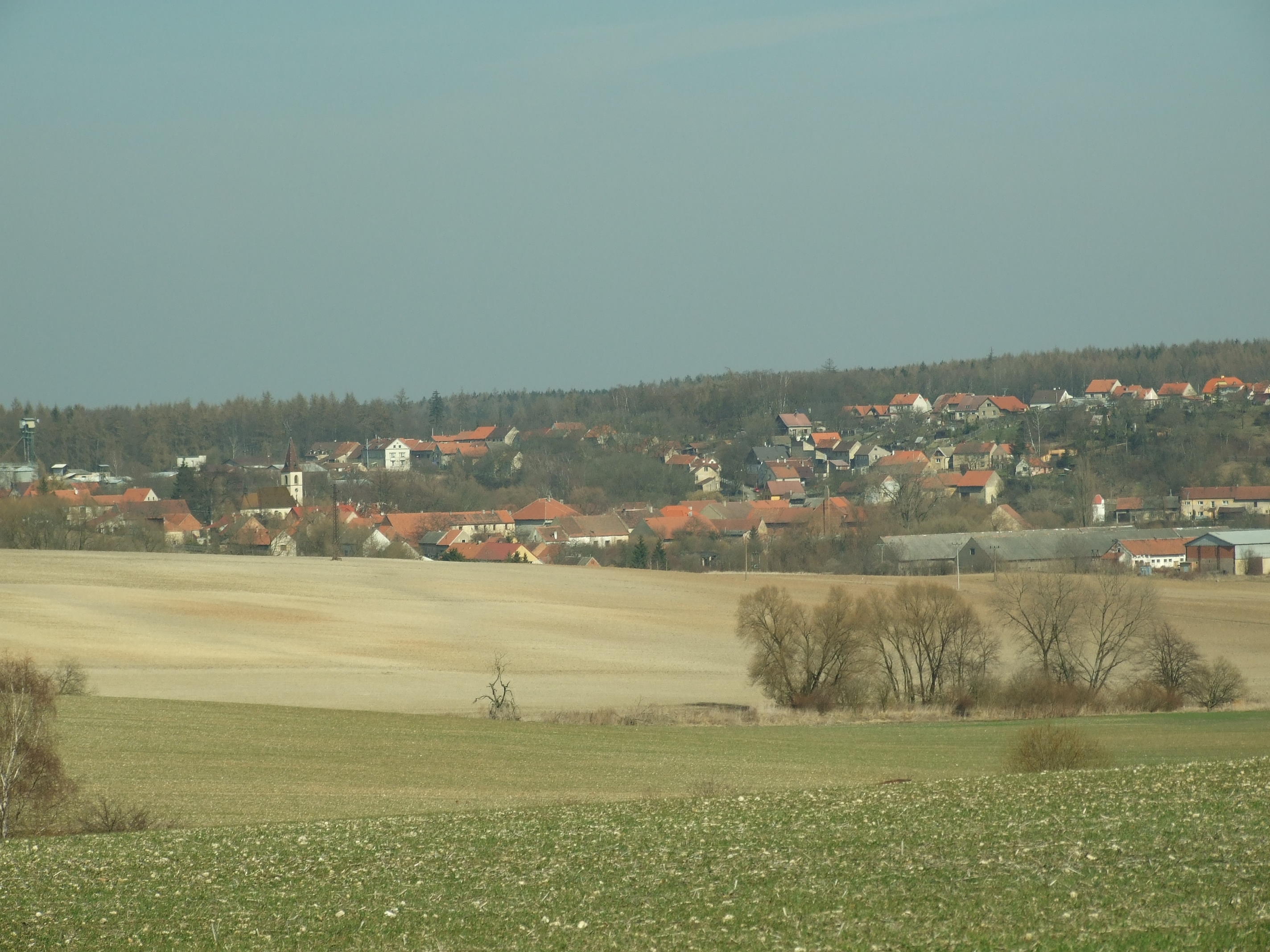 Village of Kroučová in Rakovník District. Central Bohemian Region, CZ